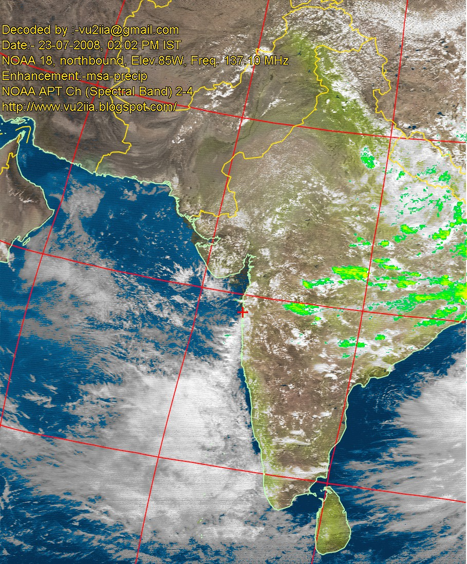 Satellite image of India during the 2008 monsoons as decoded by Indian amateur radio operator Mahesh Vhatkar (VU2IIA). The image was decoded by using his home-brewed equipment